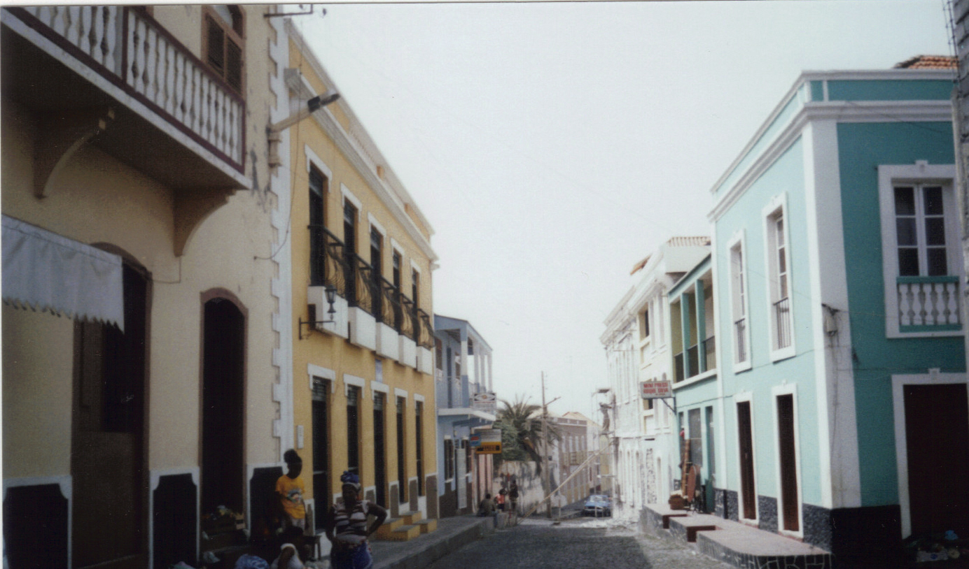 Colonial architecture, São Filipe, Fogo Island, Cape Verde